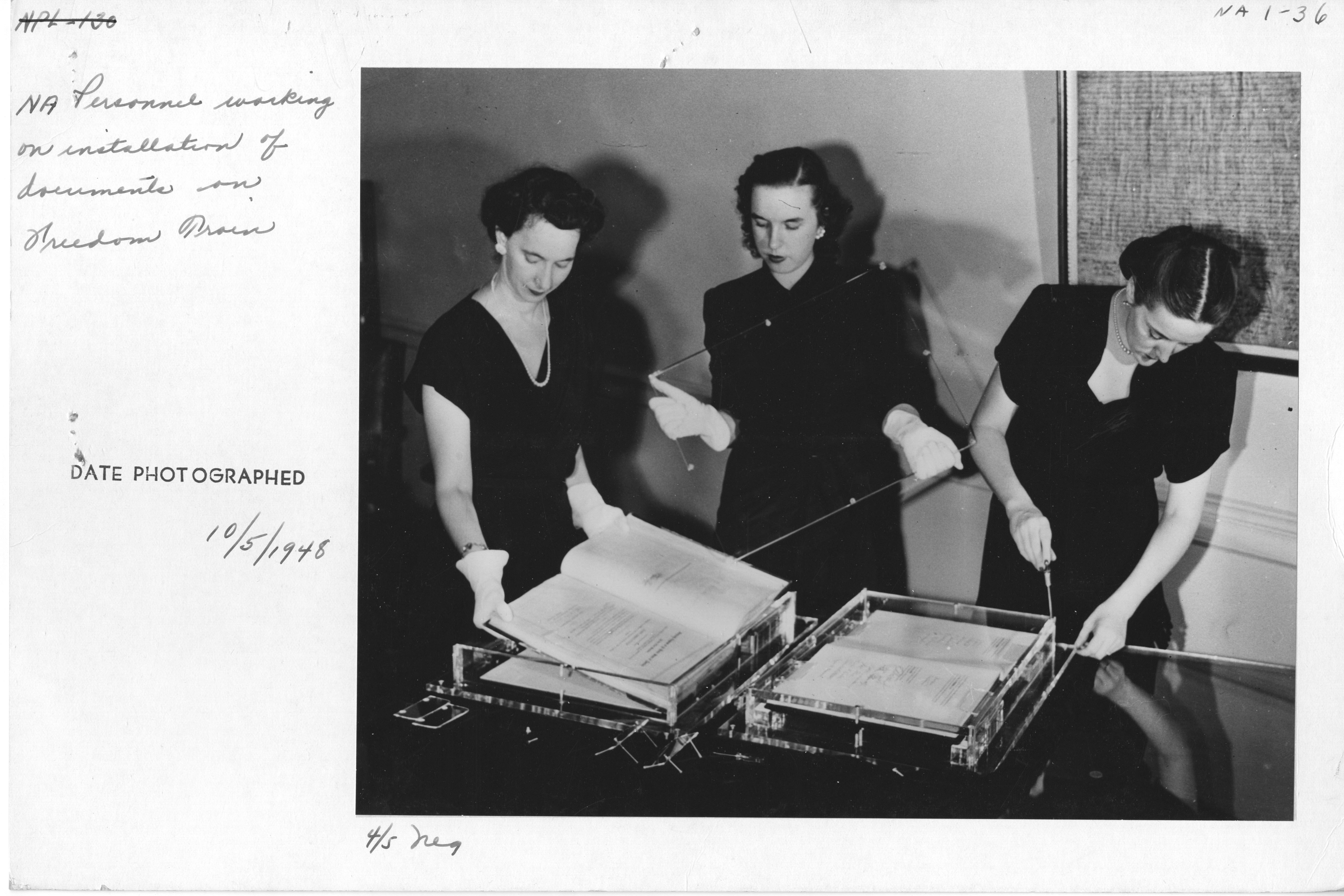 Historic Photograph File of National Archives Events and Personnel. Left to Right: Elizabeth Hamer, Margaret (Peggy) Mangum, and Elizabeth Bukowsky encase bound volumes in Lucite containers aboard the Freedom Train. National Archives Identifier: 12167218 Local Identifier: 64-NA-1-36